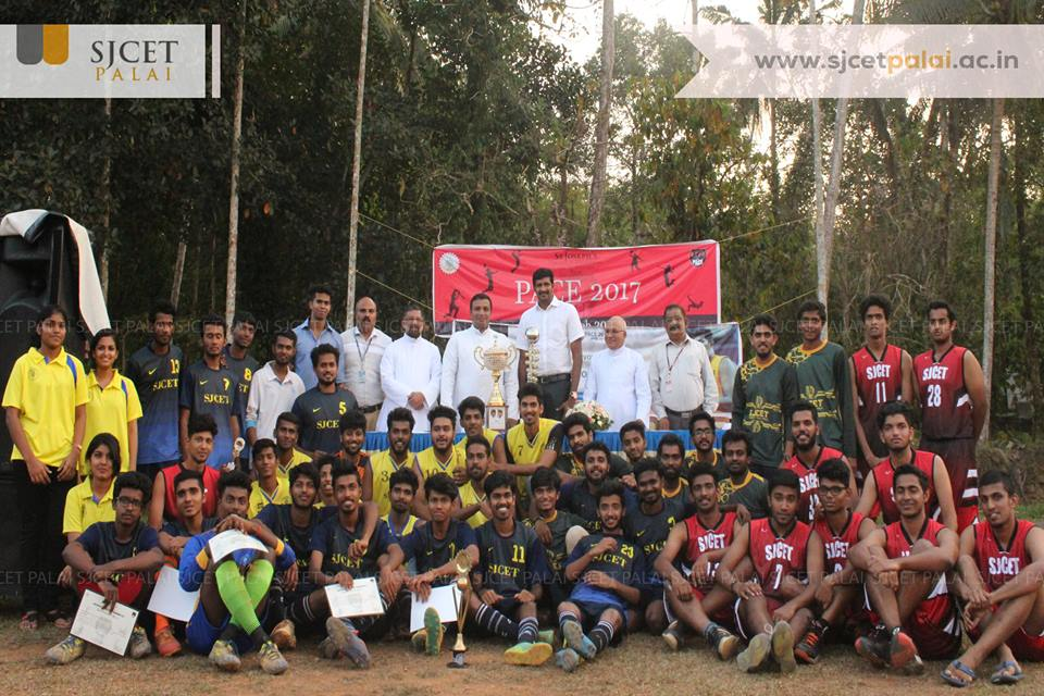 SJCET team with Arjuna Awardee and former Indian Volleyball team Captain Mr. Tom Joseph and College Management. Ever-rolling trophy winner SJCET Palai